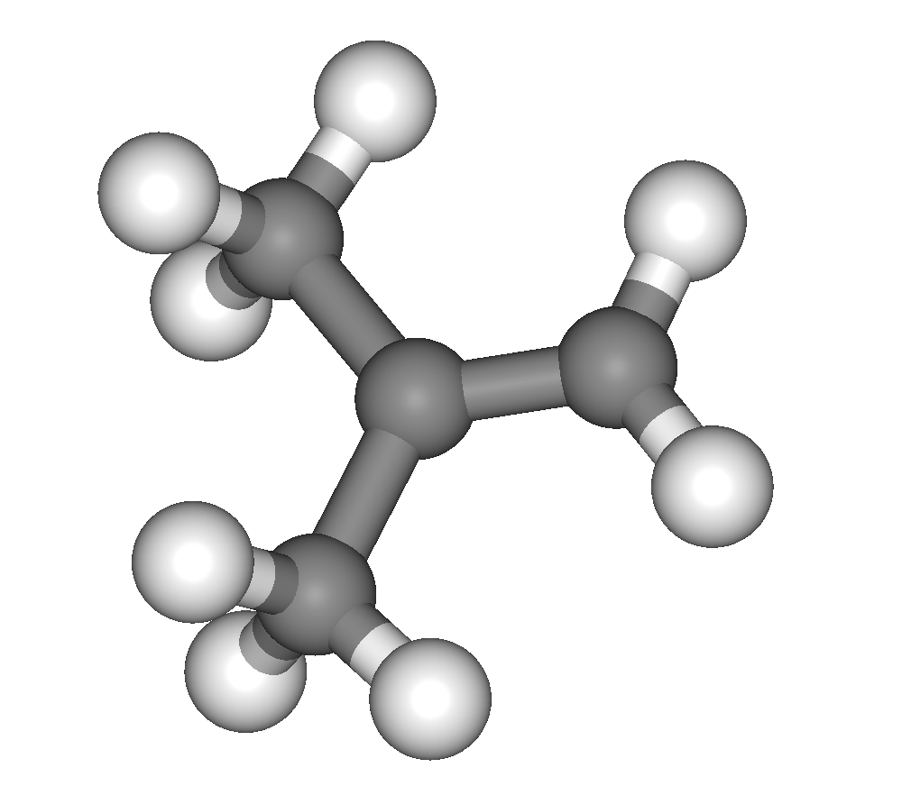 Chemical structure of isobutylene